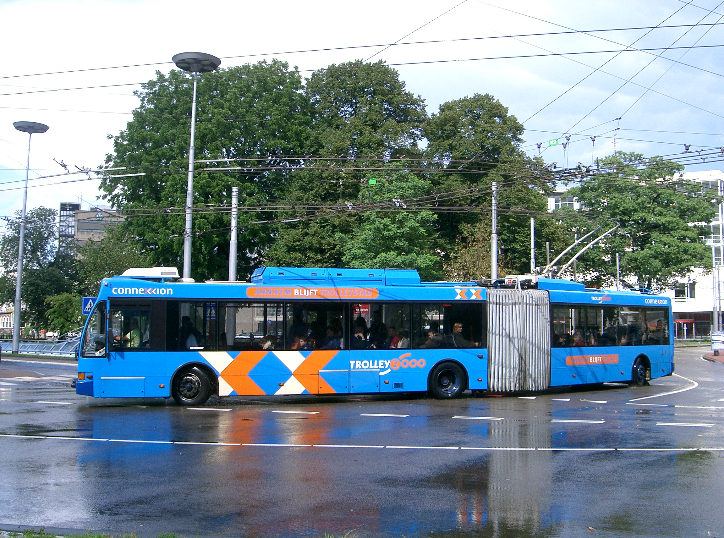 Articulated Arnhem Trolleybus demonstrating its four wheel steering (front and rear axles) Photographed by SP Smiler summer 2006